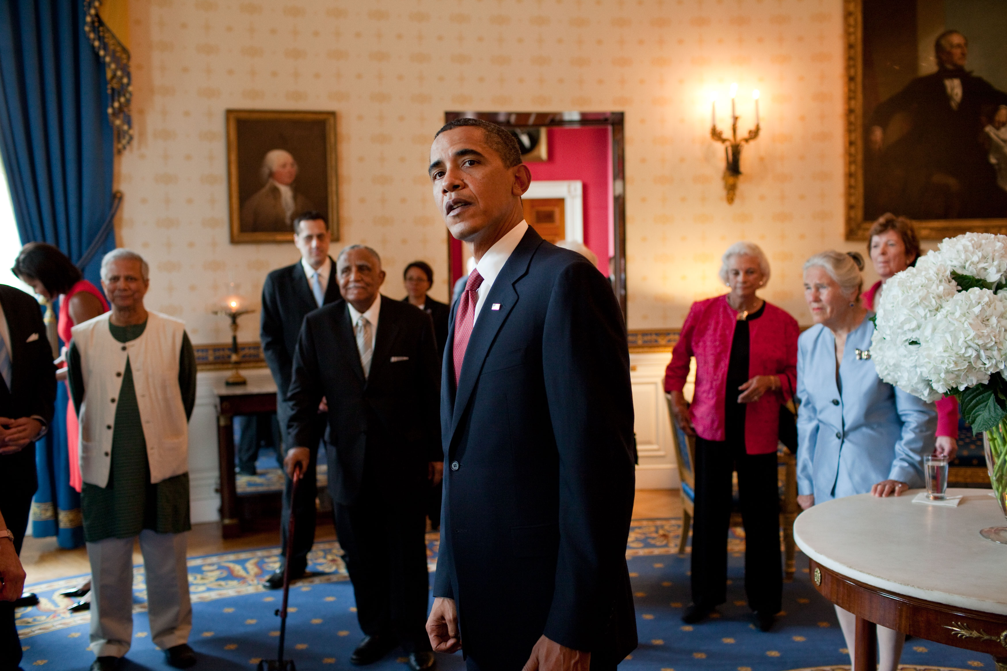 President Barack Obama waits in the Blue Room of the White House for the start of an East Room ceremony to present 16 individuals the Presidential Medal of Freedom on Aug. 12, 2009. Standing in the background, from left, are Presidential Medal of Freedom recipients; Muhammad Yunus, Stuart Milk, nephew of slain San Francisco councilman Harvey Milk, Rev. Joseph Lowery, Supreme Court Justice Sandra Day O'Connor, Dr. Janet Davison Rowley, and former President of Ireland Mary Robinson. (Official White House photo by Pete Souza)